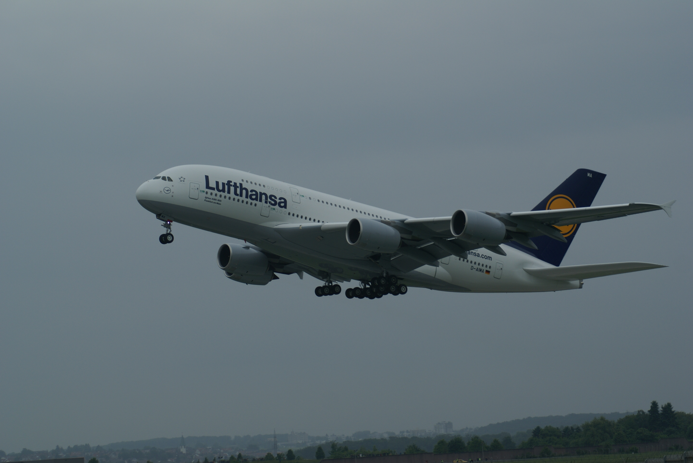 Lufthansa's first A380, D-AIMA Frankfurt am Main, takes of from Stuttgart (STR) on 2010-06-20